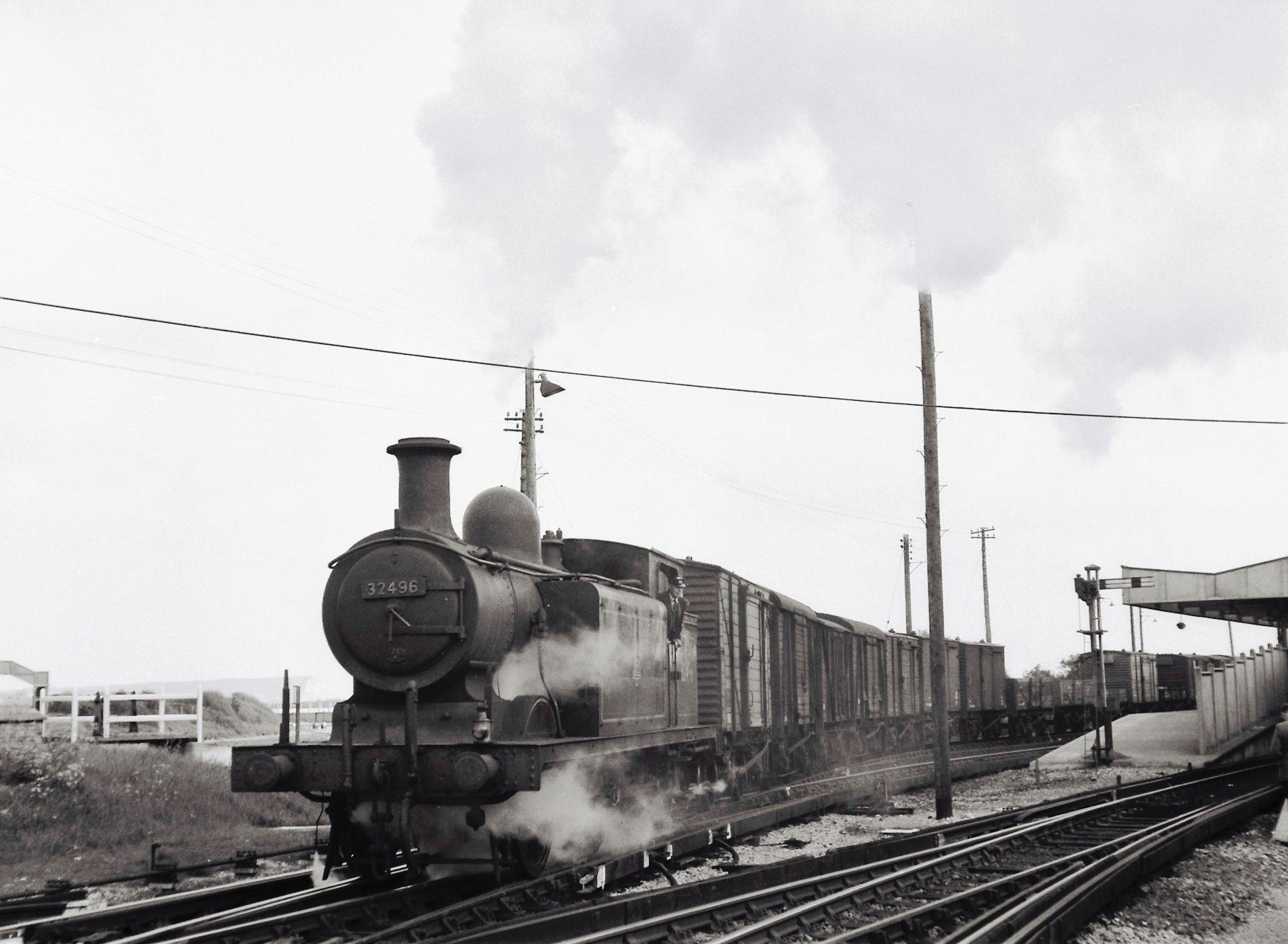 32496 departing Newhaven Marine railway station.